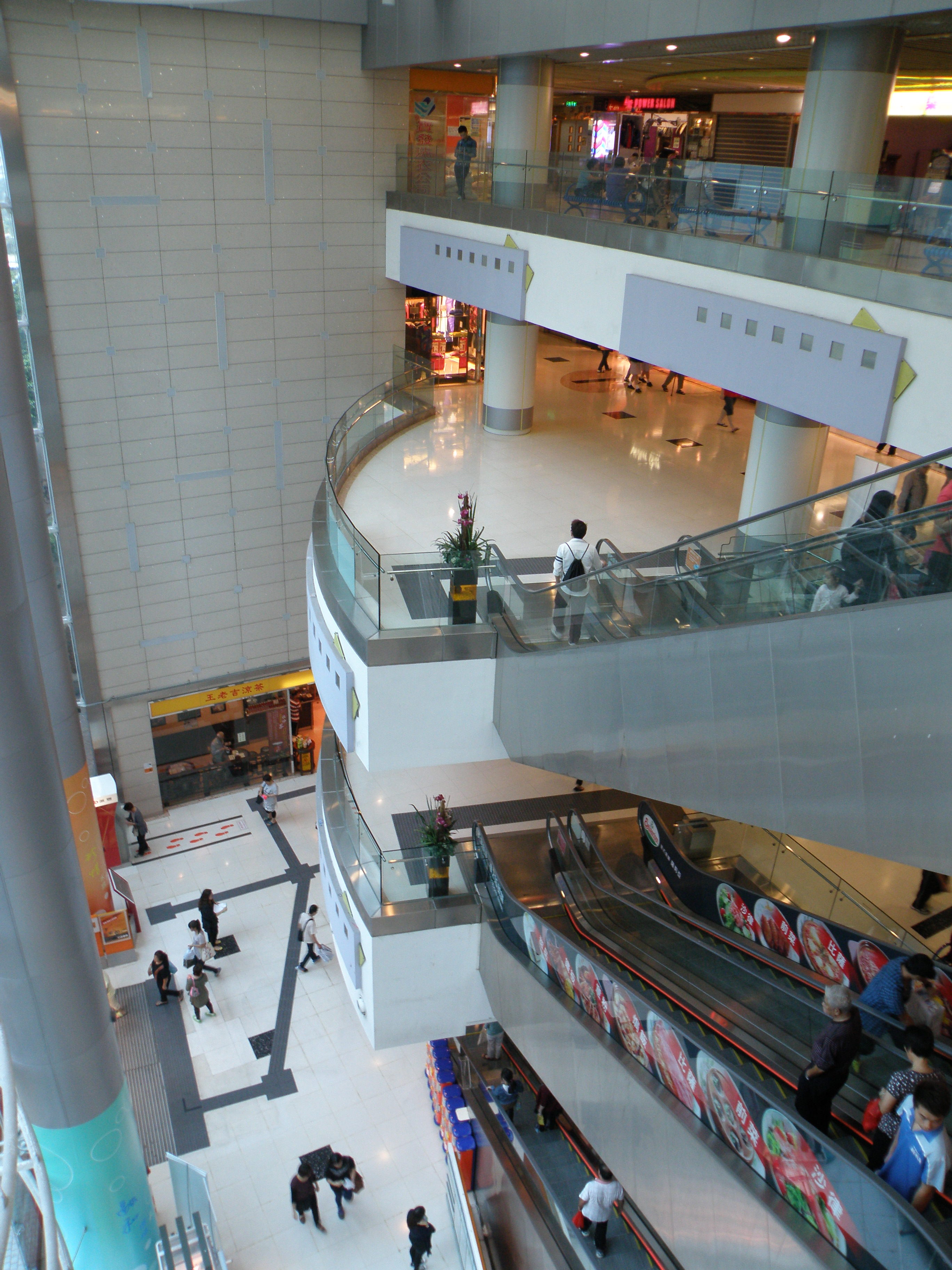 Tin Chak Shopping Centre in Tin Shui Wai, Hong Kong.